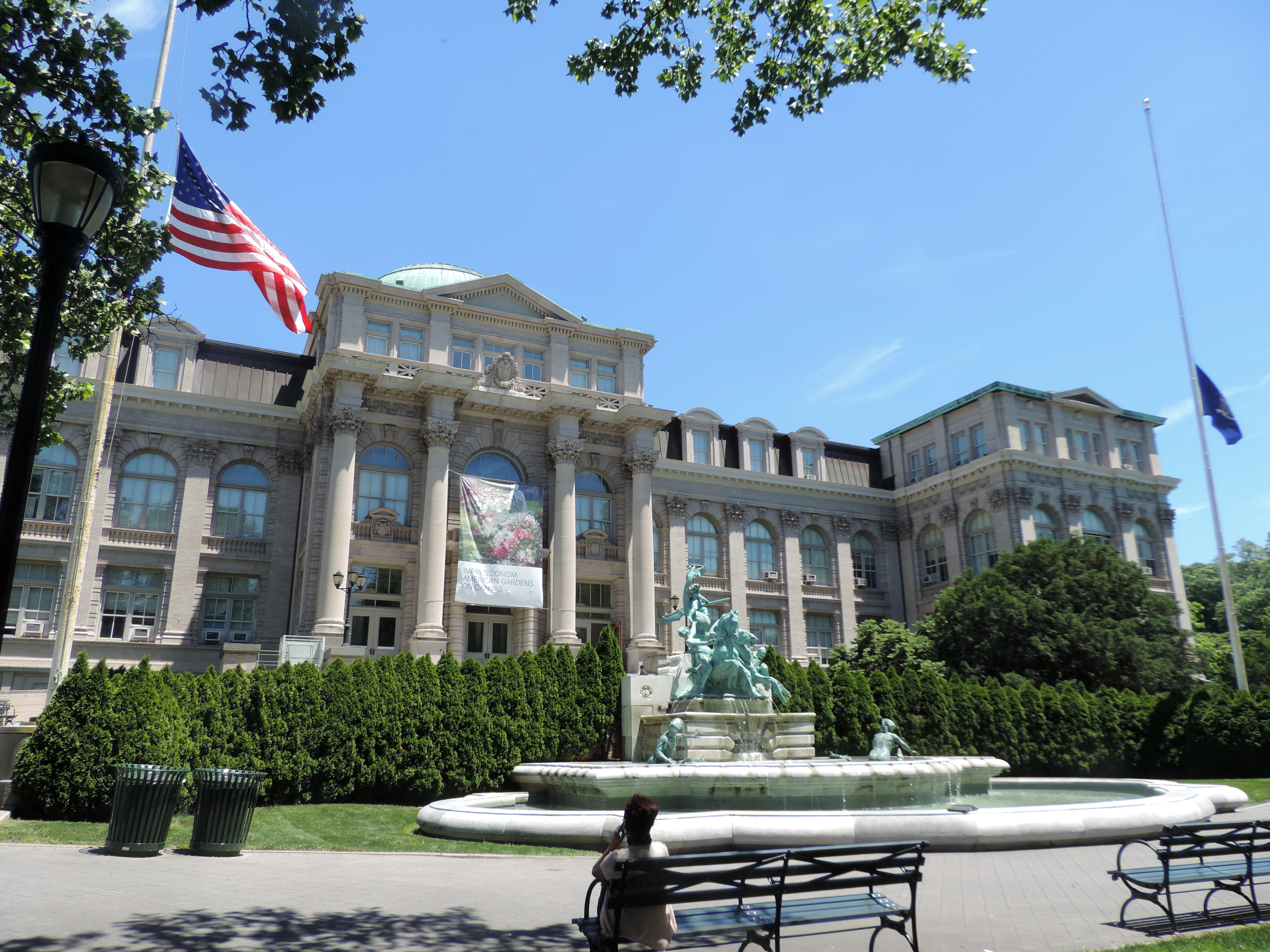 Looking east at Mertz Library on a sunny midday.